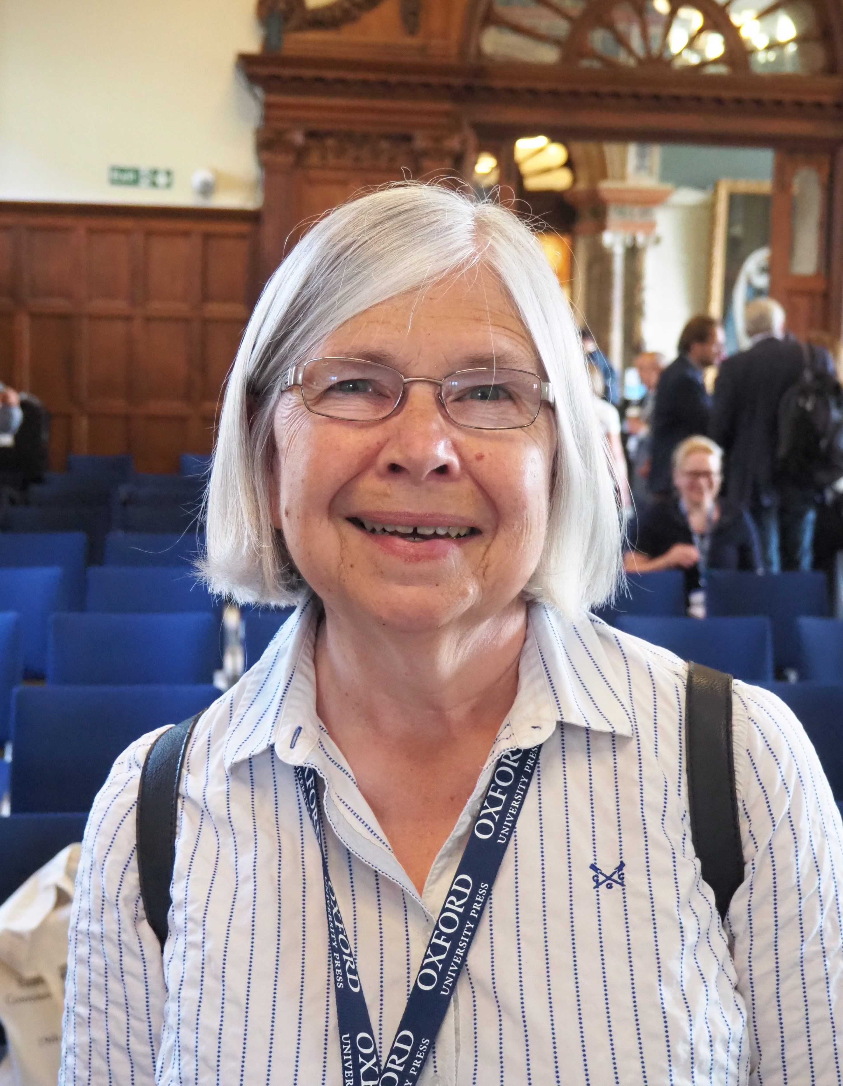 Photo of Emeritus Professor Gillian Clark, 2019 taken at the Oxford Patristics conference.